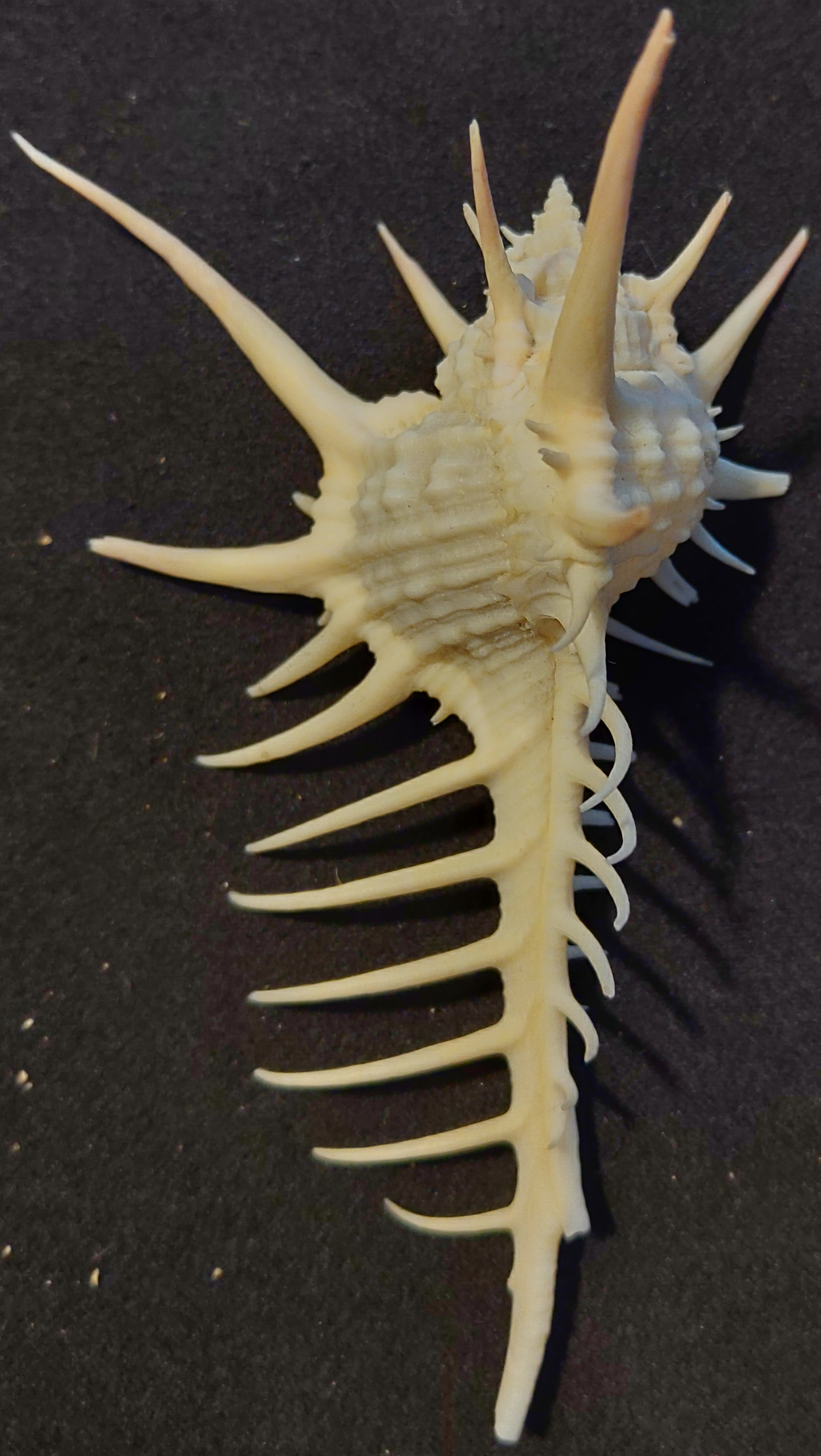 Murex Ternispira Back